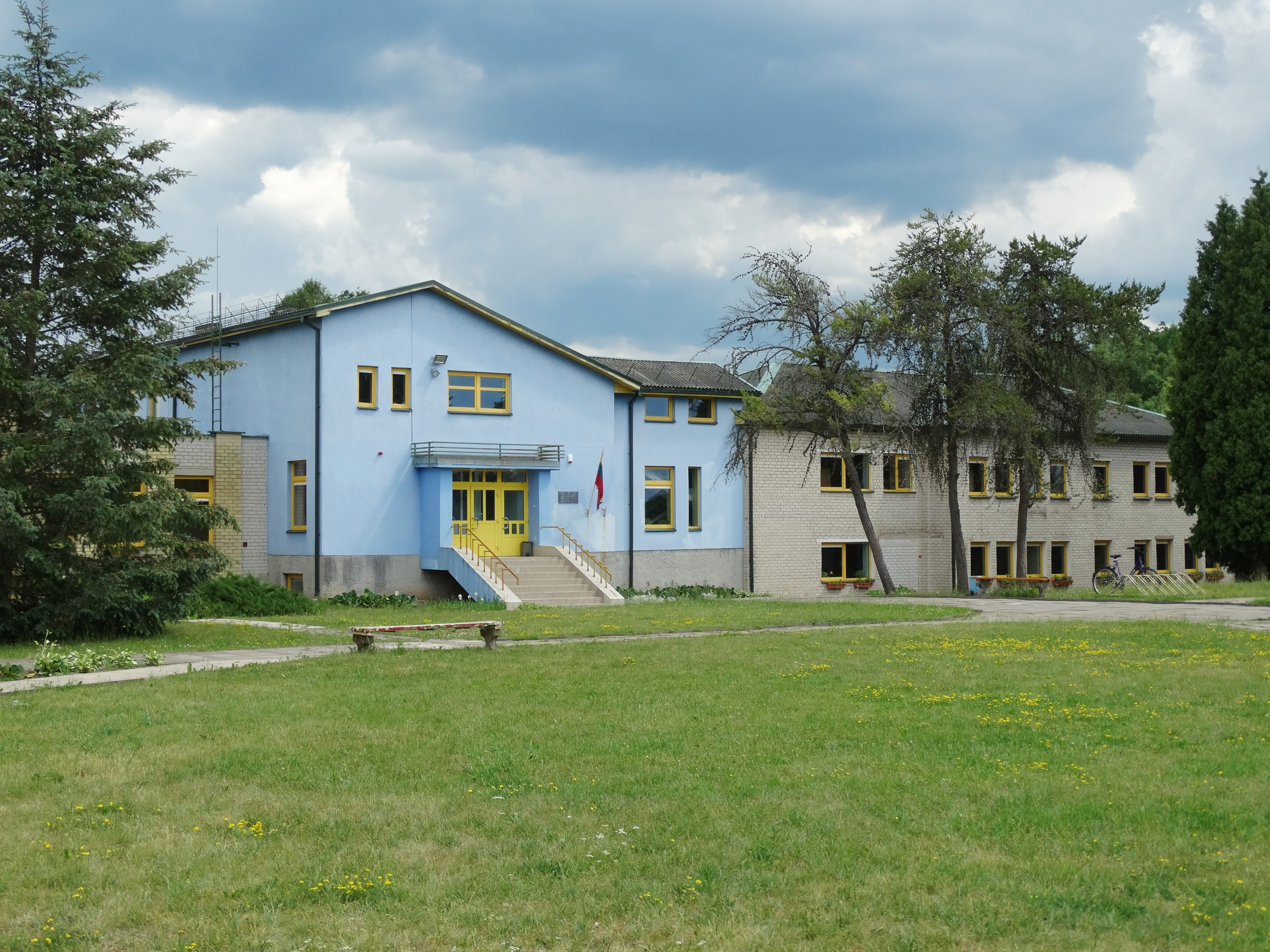 Pravieniškės Basic School, Kaišiadorys District, Lithuania